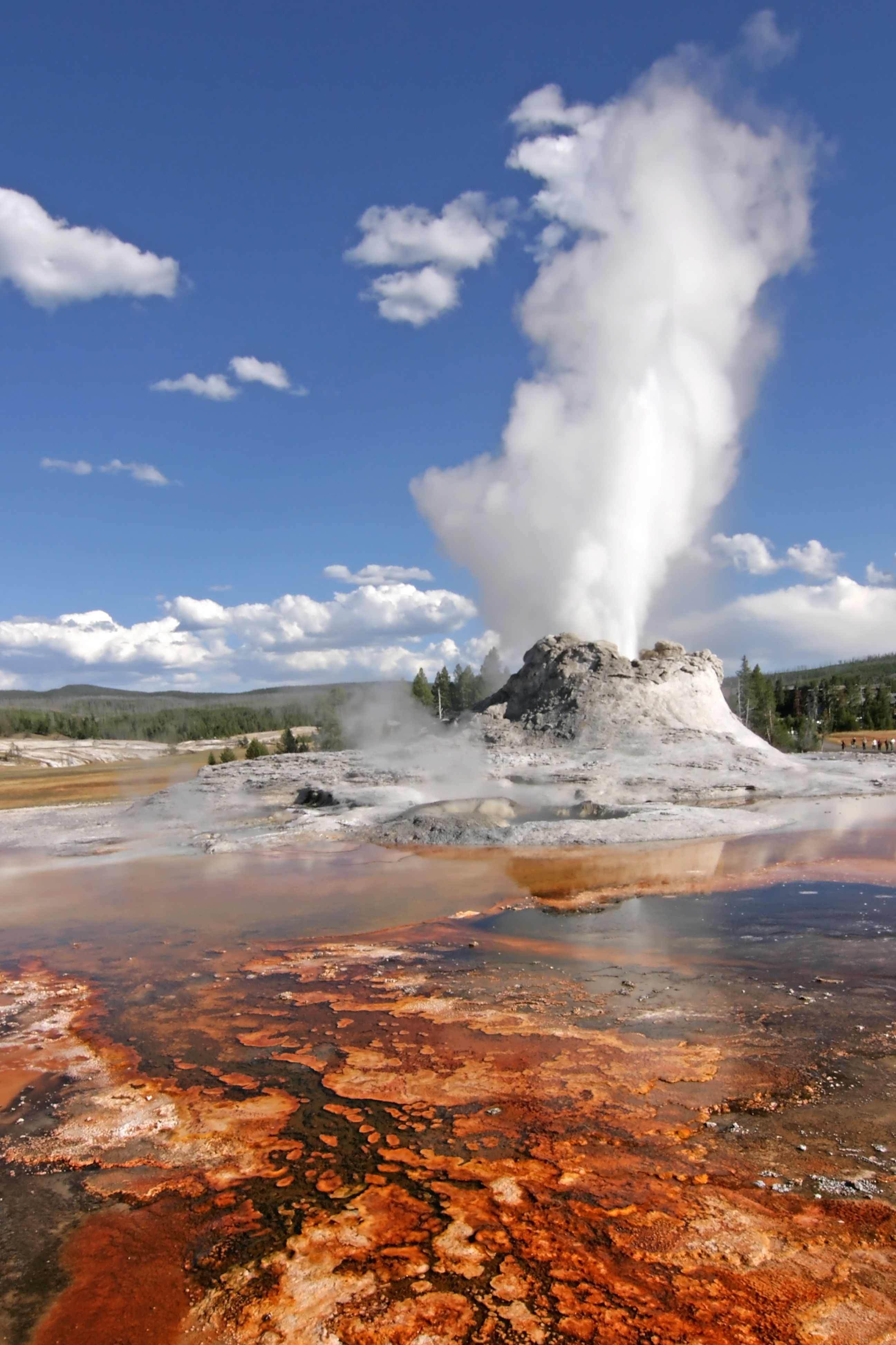 Castle Geyser during an eruption. Yellowstone National Park, Wyoming, USA.